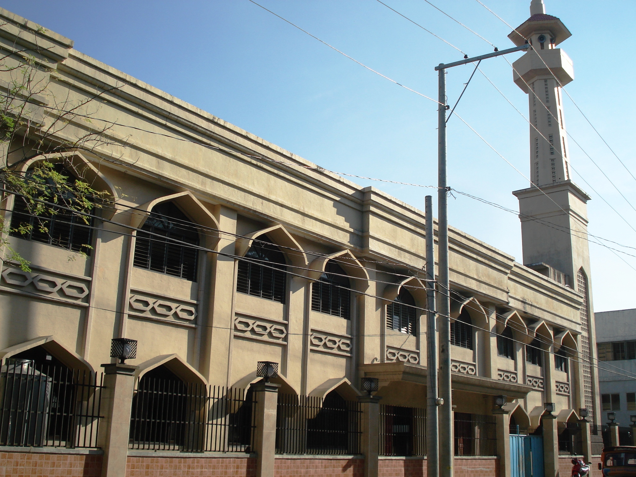 Santa Barbara Mosque